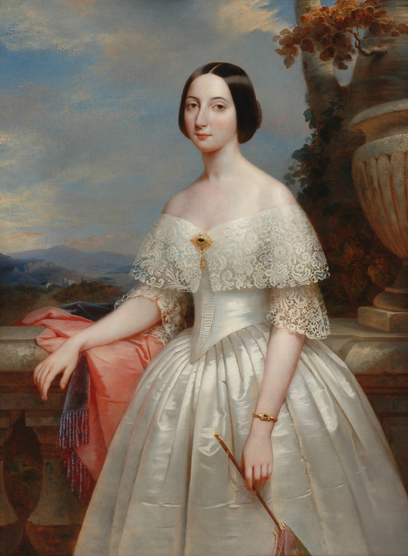 She is 26 years old and already mother of five children. She stands on the terrace of her palais with a wonderful evening landscape in background. Seven years after the portrait's creation she would die.